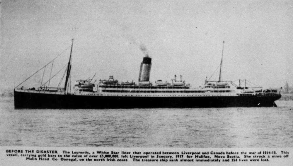 Laurentic (ship)